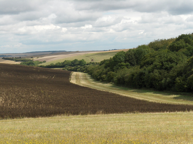 A valley below Catmore. A field of black broad beans next to Woolvers Borders (wood).